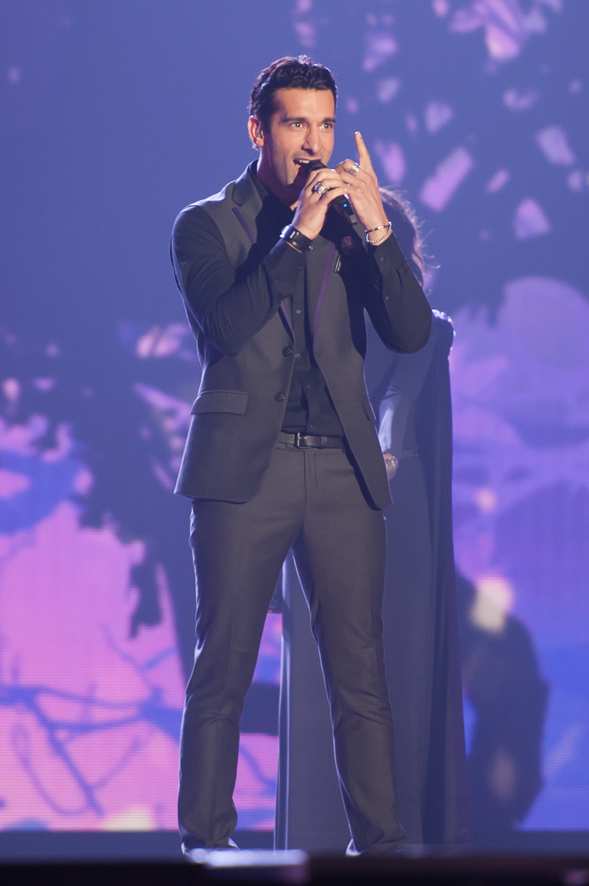 Eurovision Song Contest Vienna 2015: Genealogy, Armenia